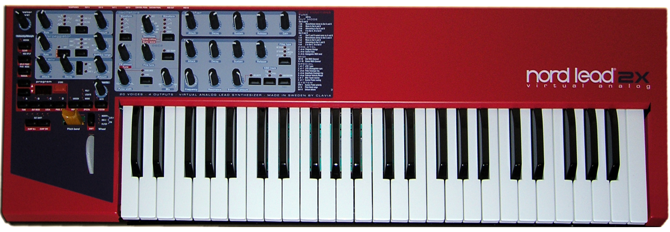 Picture of a Clavia Nord Lead 2x synthesizer